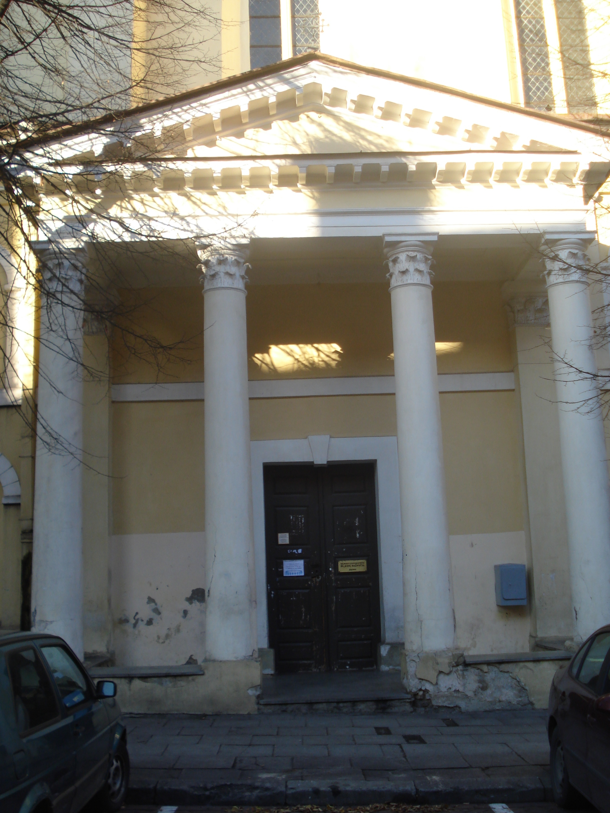 Church of St. Johns in Vilnius. Southern facade